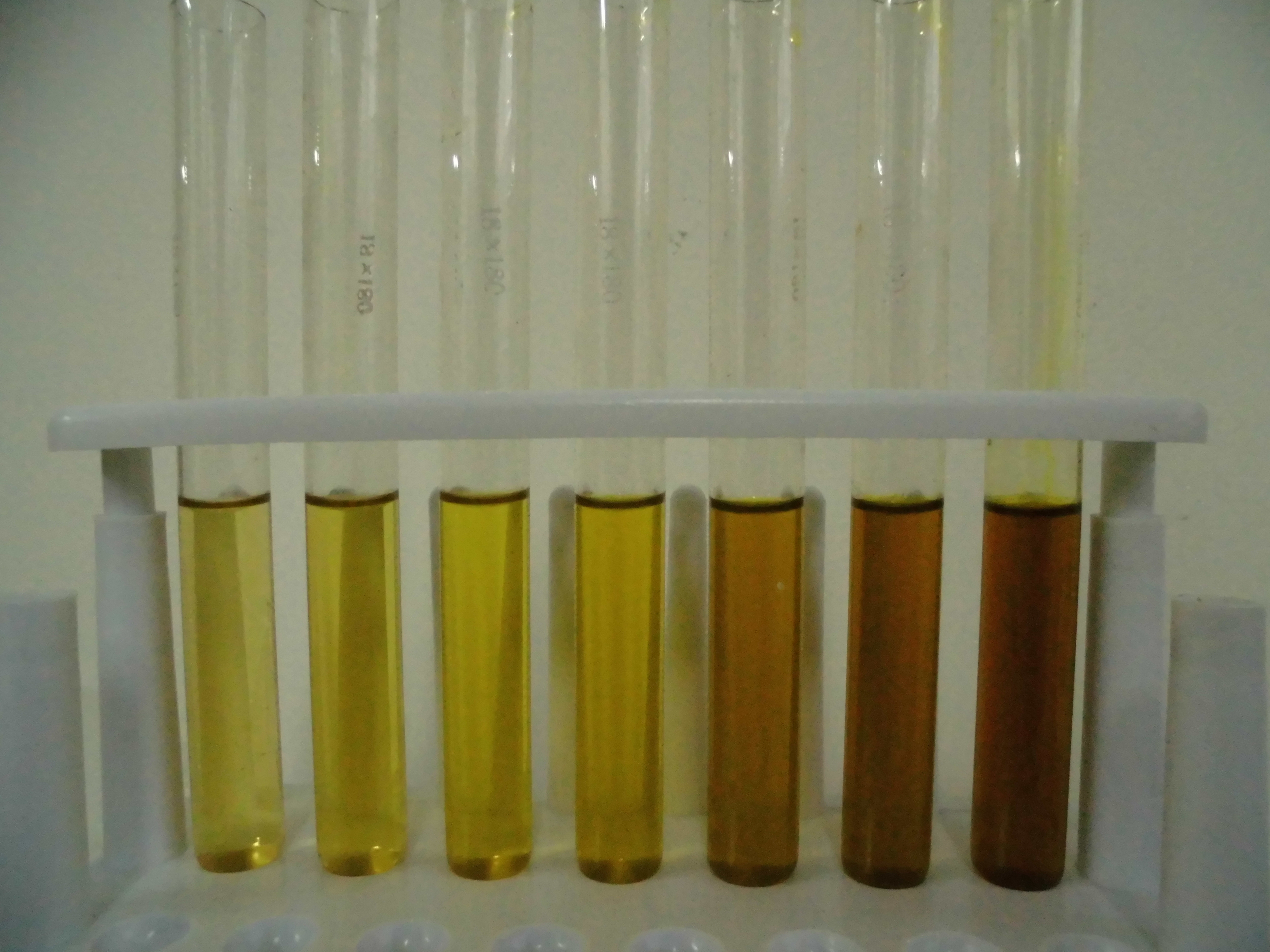 Iron(III) chloride solutions of different concentrations, 0.05, 0.1, 0.25, 0.5, 1.0, 1.2 and 1.5 mol/L, respectively.